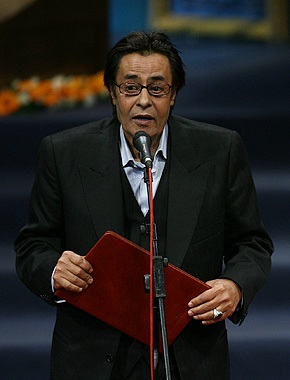 اختتامیه بیست و پنجمین جشنواره فیلم فجر